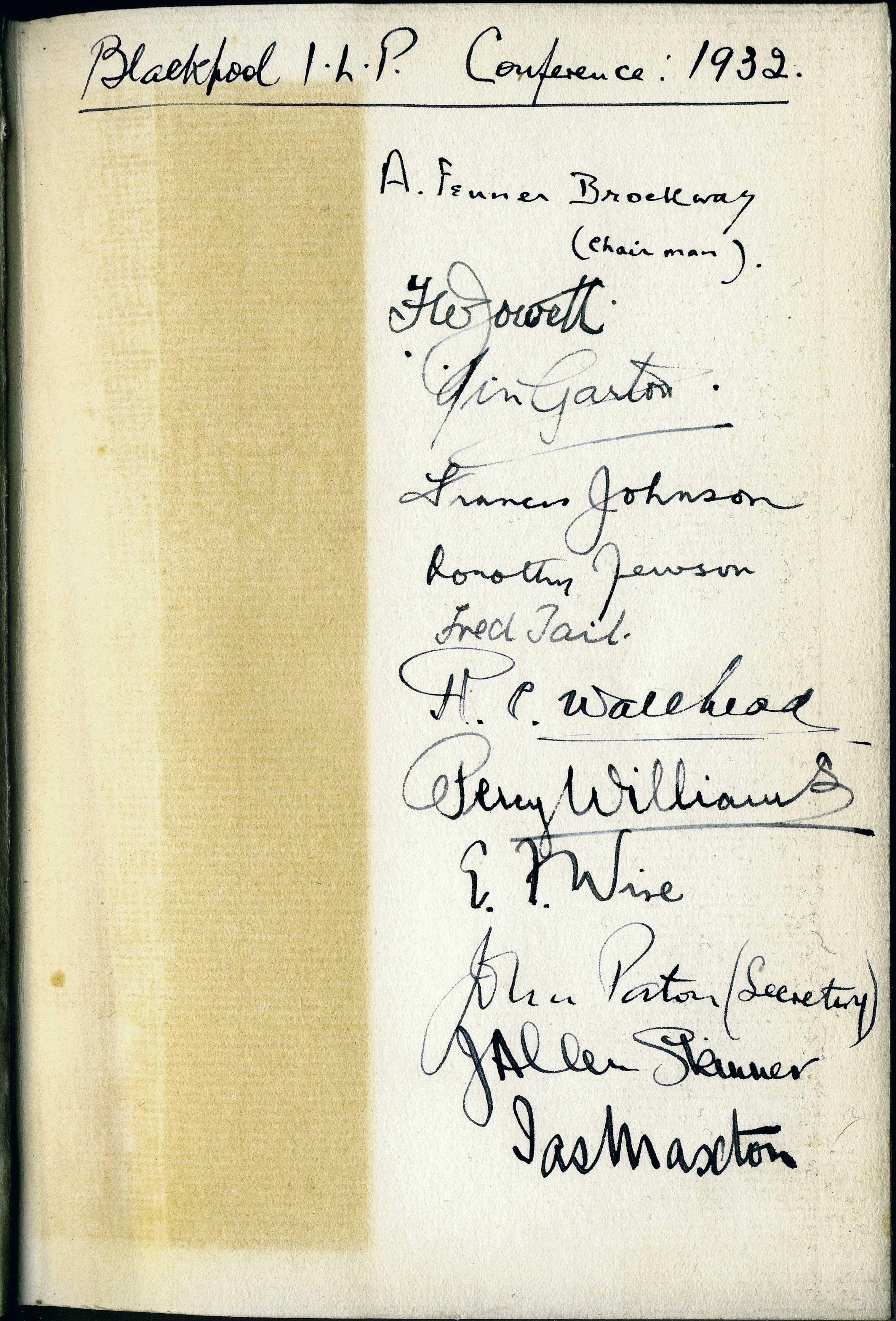 Dedication in a book by Fred Henderson (“The Economic Consequences of Power Production”) with the personal signatures of some members of the ILP. - It is a scan of a book page from my private library.